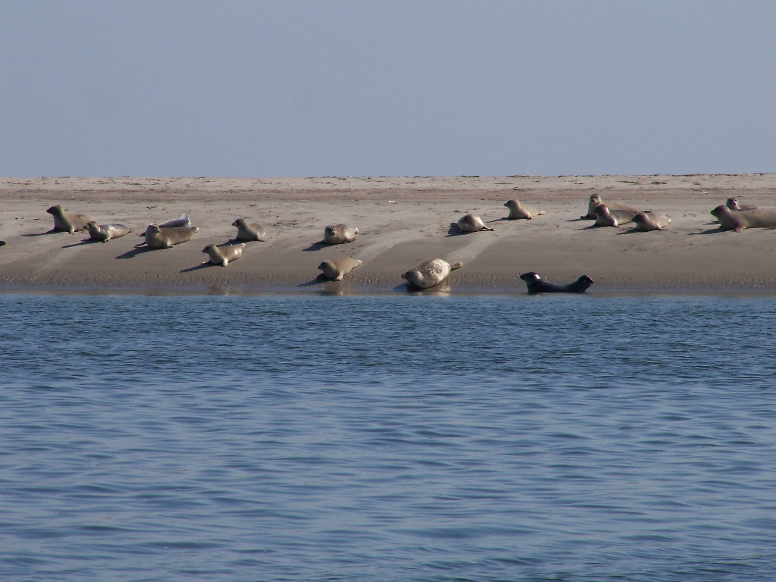 Harbour Seals on the coast of Fanø, Denmark